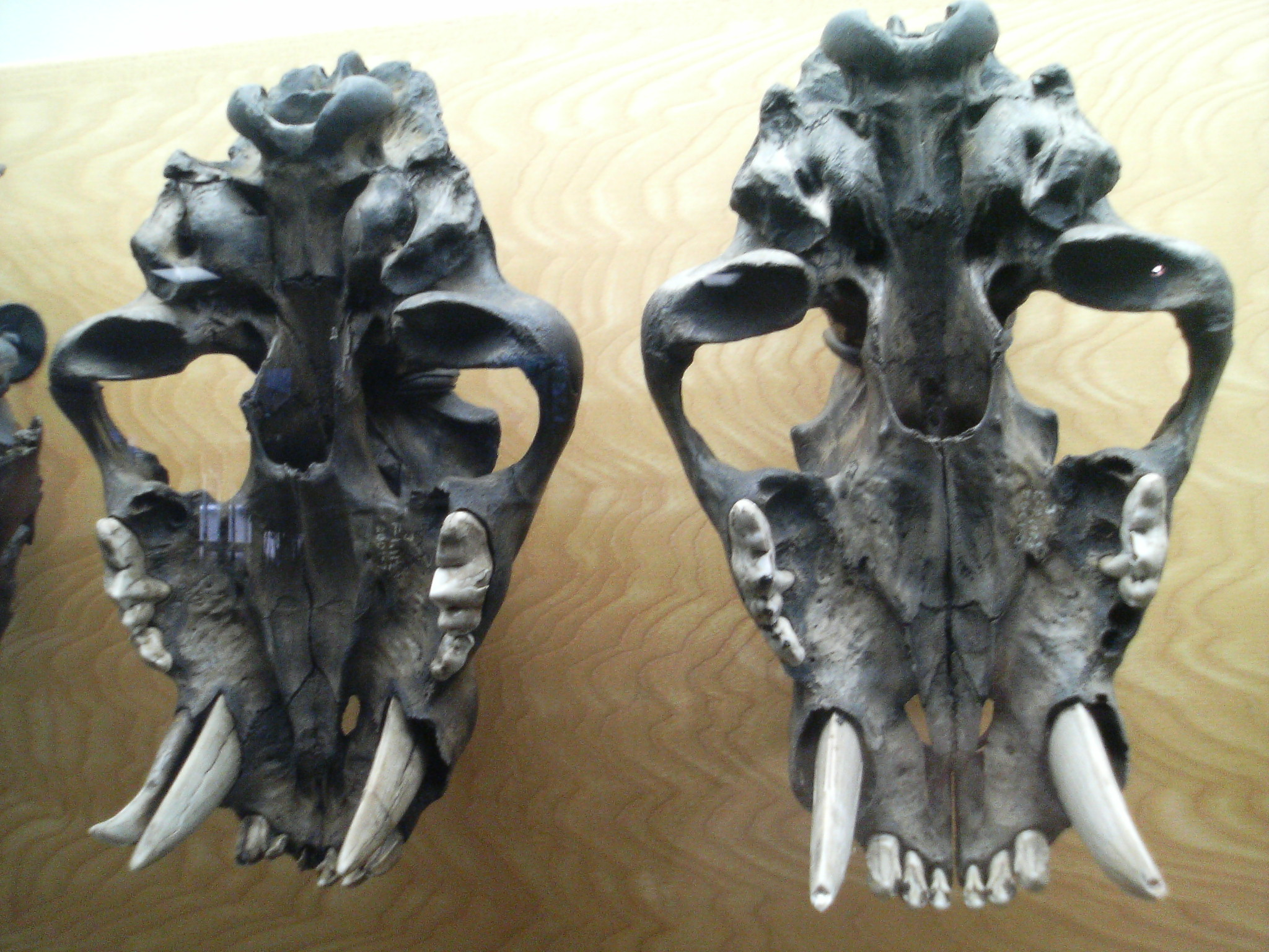 Undersides of two Smilodon skulls, showing tooth replacement, La Brea tarpits museum